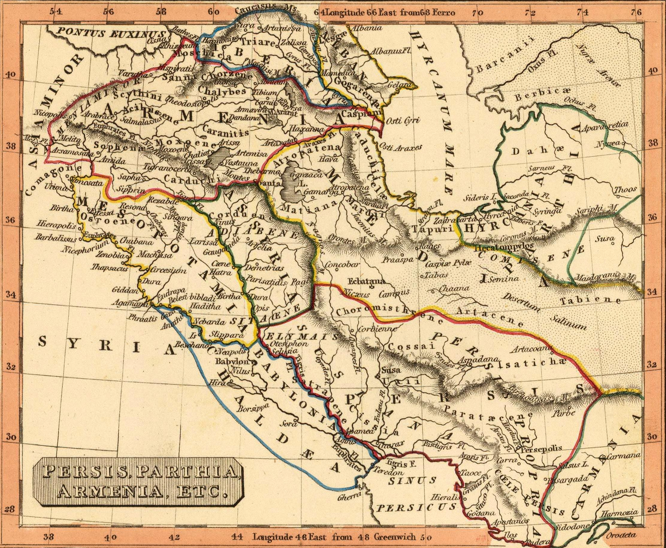 Persis, Parthia, Armenia, etc. Fenner Sc., Paternoster Row. (London, Joseph Thomas, 1835)